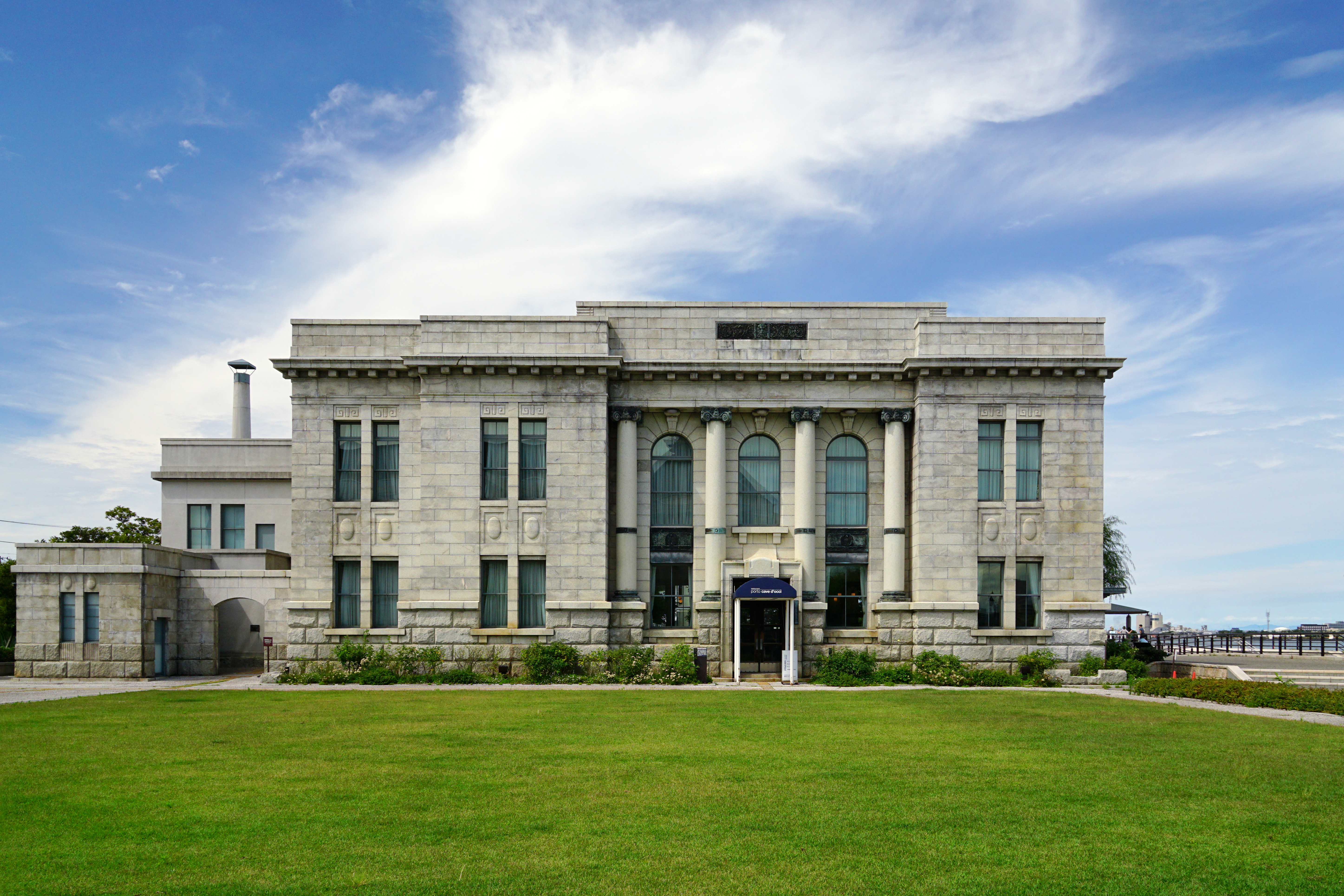 The Former Daishi Bank Sumiyoshi-cho Branch building, forming part of The Niigata City History Museum in Niigata, Niigata Prefecture, Japan